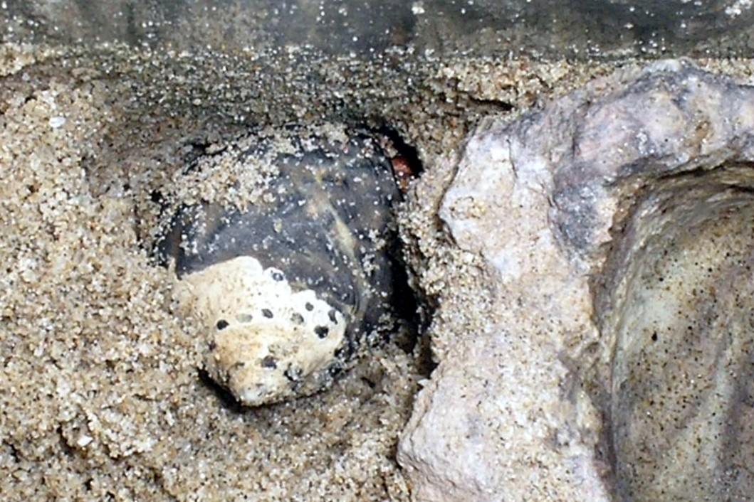 Caribbean hermit crab (coenobita clypeatus) digging under a drinking dish and getting ready to moult.